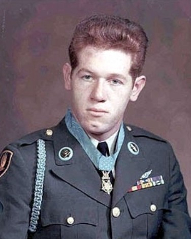 United States Army Specialist Fourth Class Gary George Wetzel received the Medal of Honor for his actions in the Vietnam War